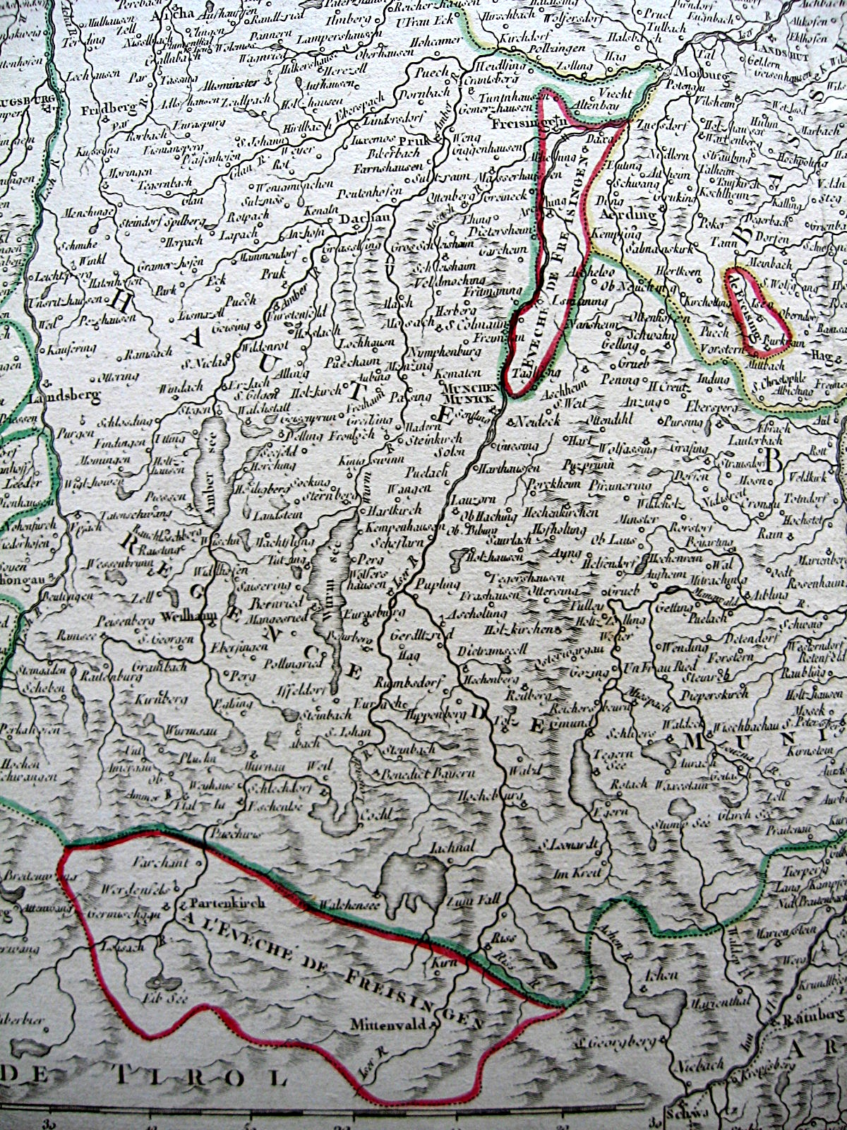 Mid-18th-century French map showing the three non-contiguous parts of the Prince-Bishopric of Freising enclaved inside or at the southern edge of the Electorate of Bavaria. The episcopal city of Freising, residence of the prince-bishop, is at the far north of the northernmost enclave. The southermost enclave, the County of Werdenfels, with the towns of Garmisch and Partenkirchen to the West and Mittenwald to the East, came under the control of the prince-bishop in the late 13th century. The other possessions of this very fragmented prince-bishopric, located much further to the east and south, are not shown on the map. Cropped from a map of the Circle of Bavaria published by Robert de Vaugondy circa 1755.